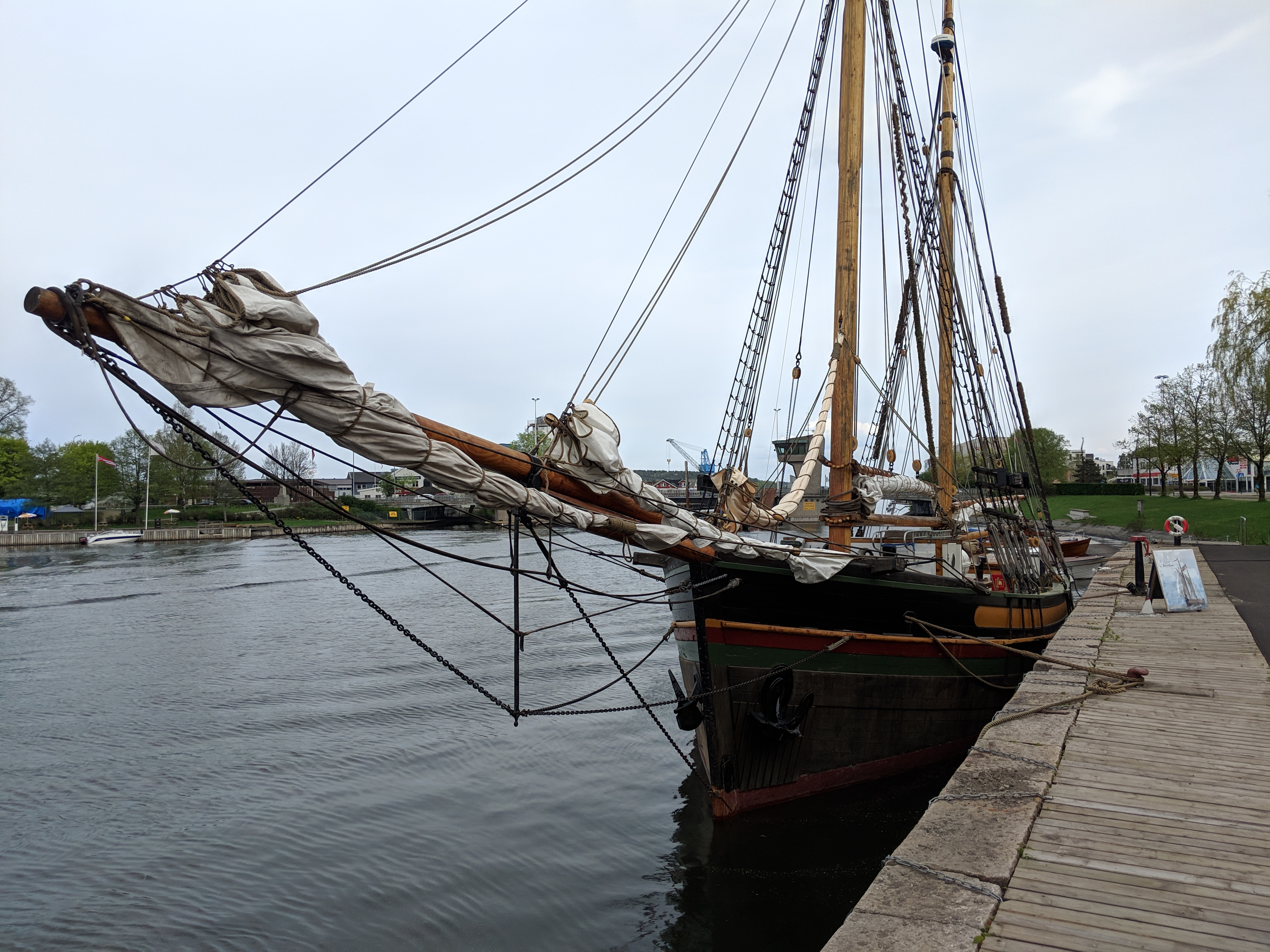 The galeas "Berntine", Tønsberg Kystkultursenter Kanalen Færder vgs Norway